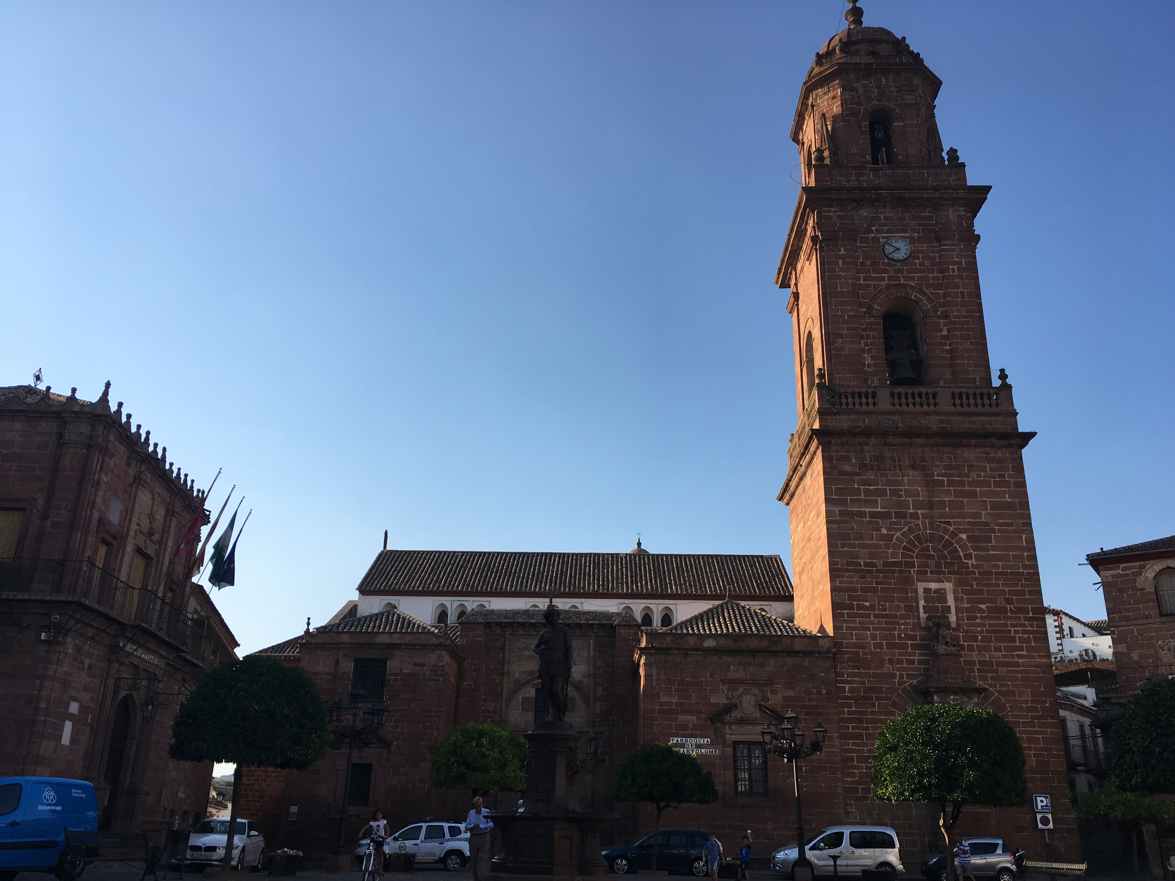 Saint Bartholomew Church, Montoro (Spain)